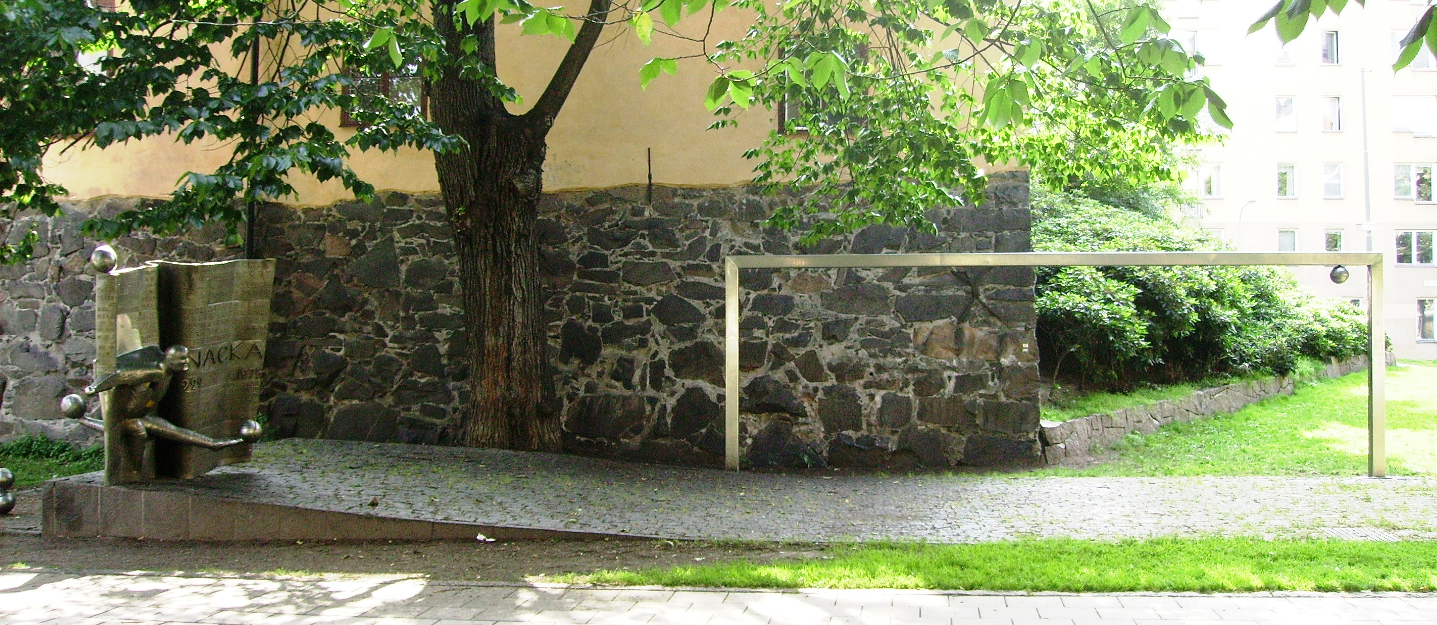 Picture of Nacka Skoglund's monument in Södermalm in Stockholm.